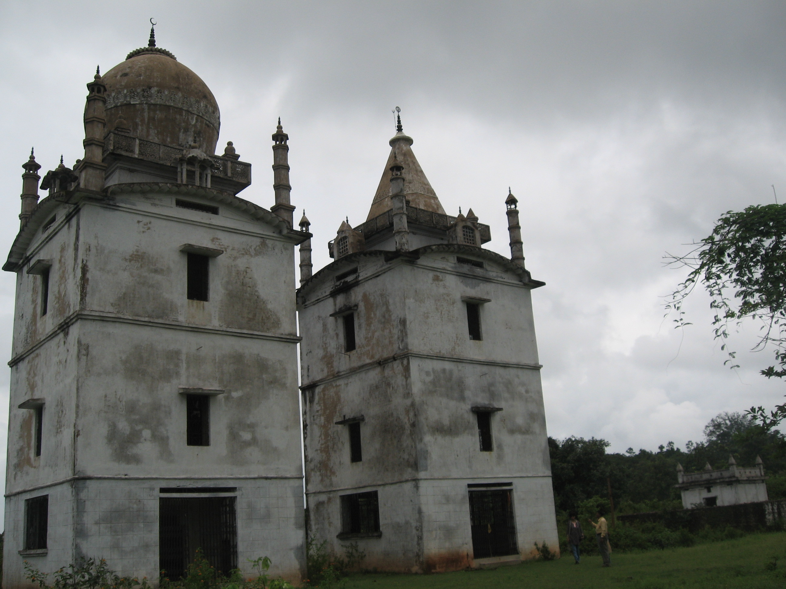 A mosque, temple & Gurudwara side by side in McCluskieganj, India